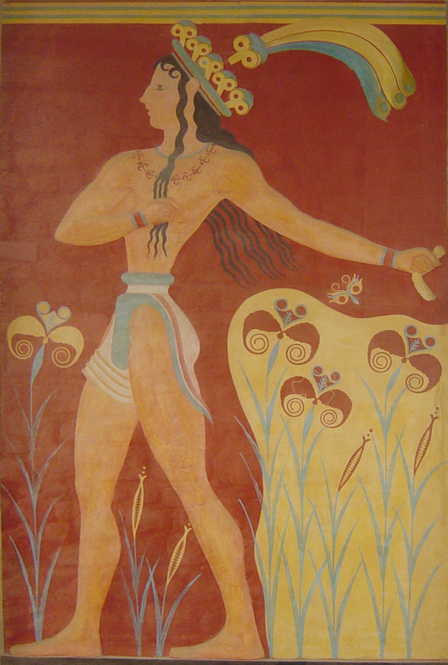 Reproduction fresco on reconstucted wall at Palace of Minos, Knossos, Crete. Some glass reflections present